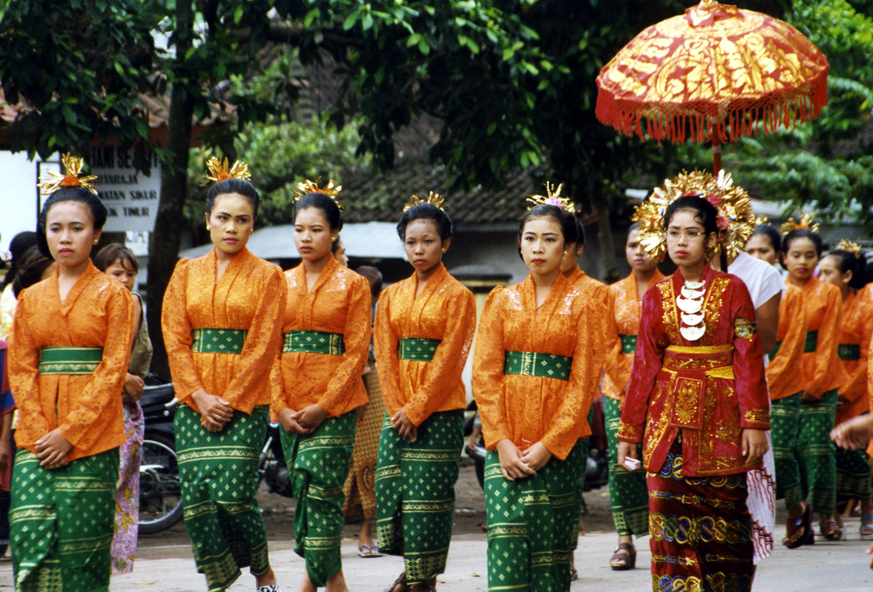 Lombok Wedding Party. On Lombok, most weddings are held during the month of April, and the parades are held on Sundays, so we saw wedding parades everywhere - sometimes several at once in the same village.